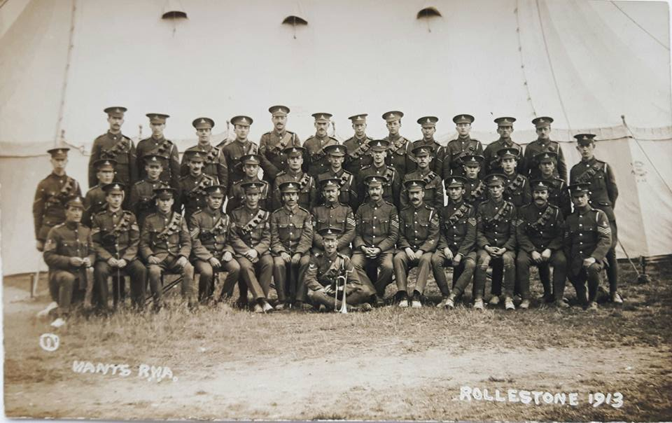 Group of the Hampshire Royal Horse Artillery, at Rolleston Camp, 1913. Taken from a postcard by A F Marett, Shrewton